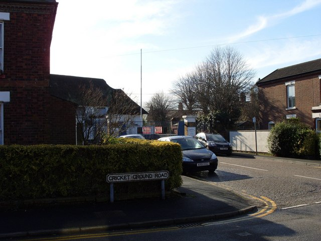 Former Norfolk County Cricket Ground This entrance and thatched pavilion led to the Norfolk County Cricket Ground, off City Road. It is now closed.